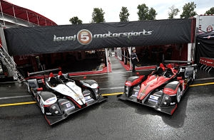 The Level 5 Motorsports ALMS Cars #55 and #95